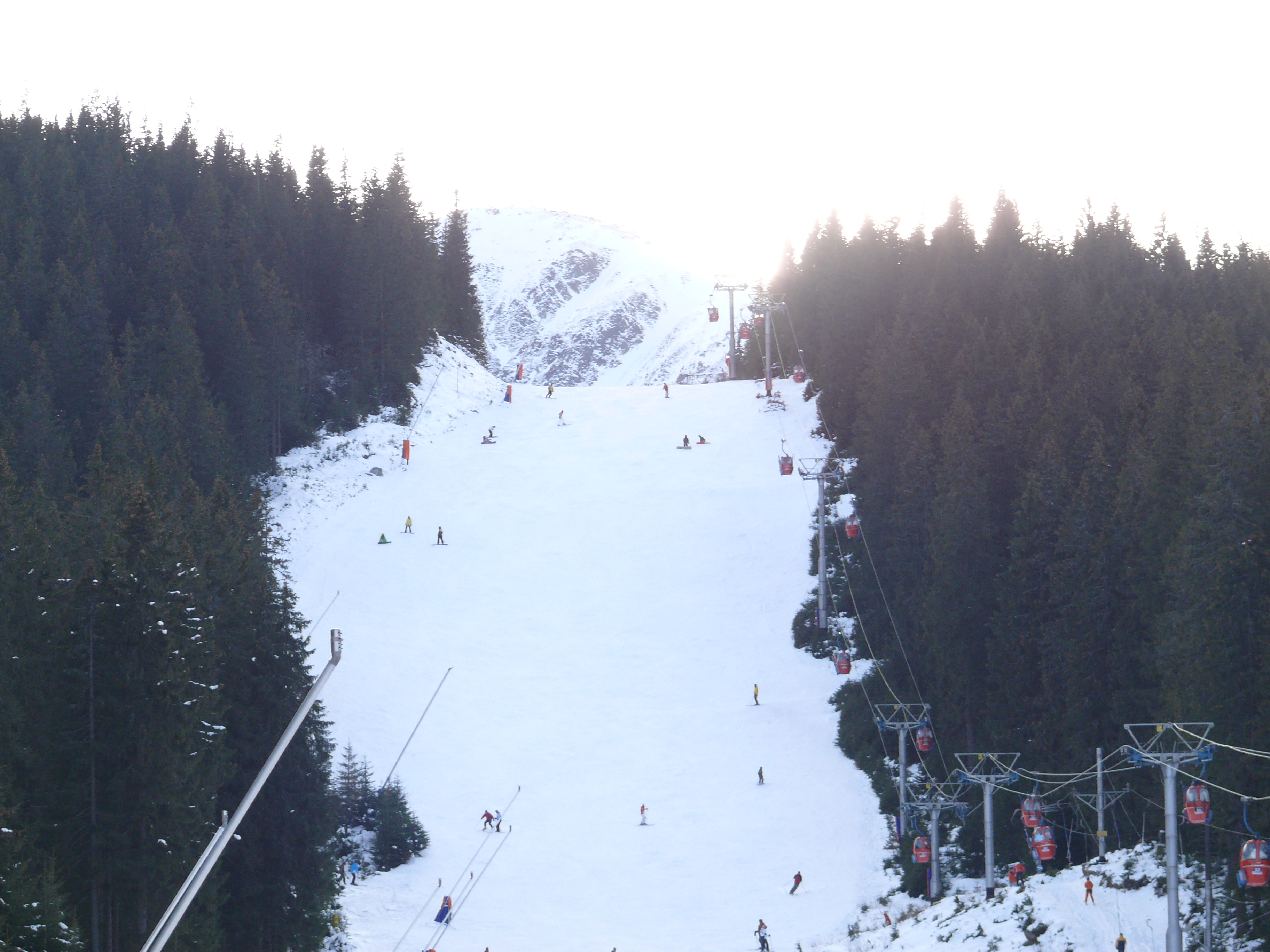 Ski slope in Jasná Ski Resort, Slovakia, with todays abandoned gondola lift Otupné–Brhliská. Device was dismantled in 2009 and replaced with new cableway